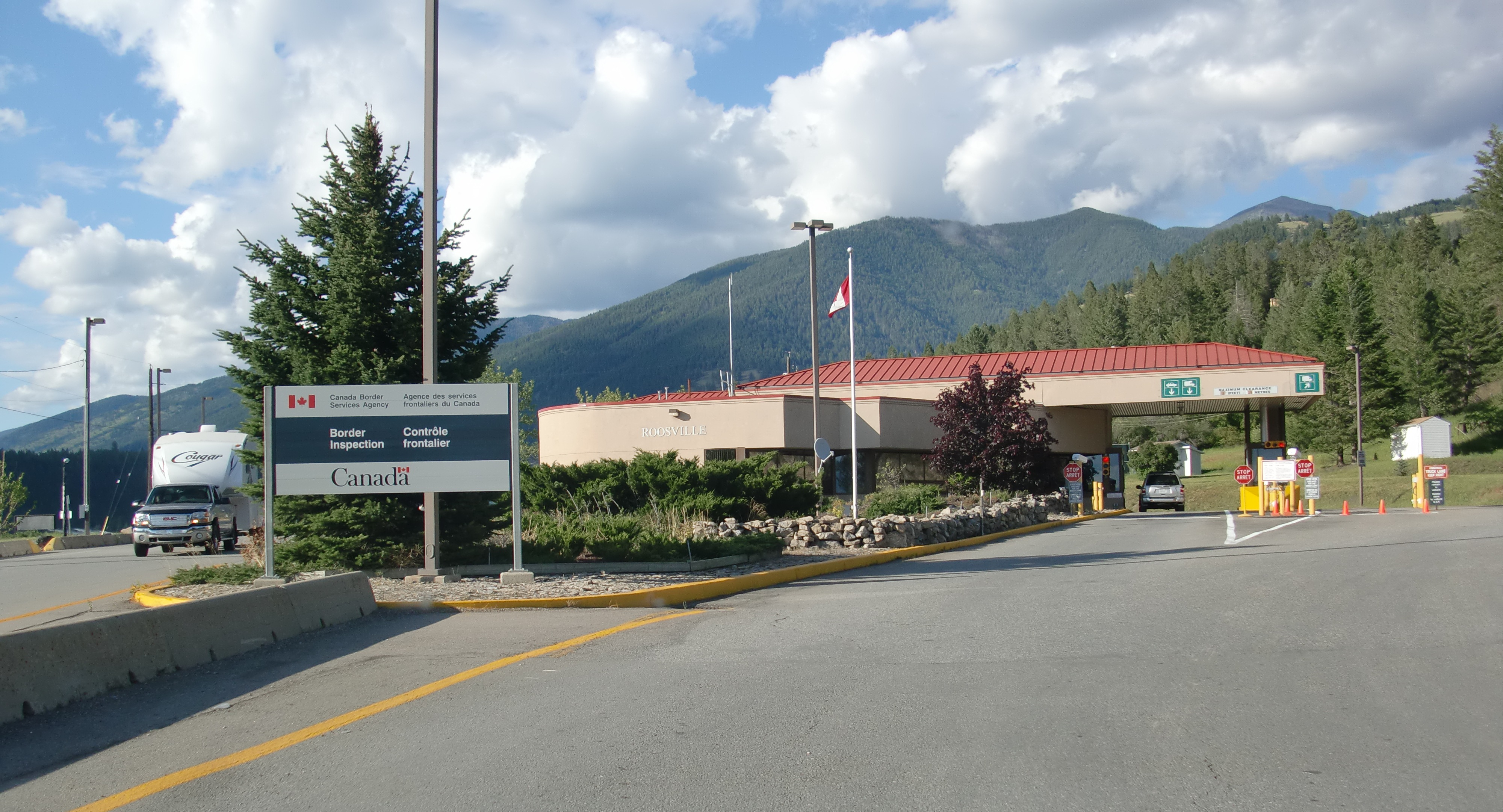 Roosville, BC port of entry